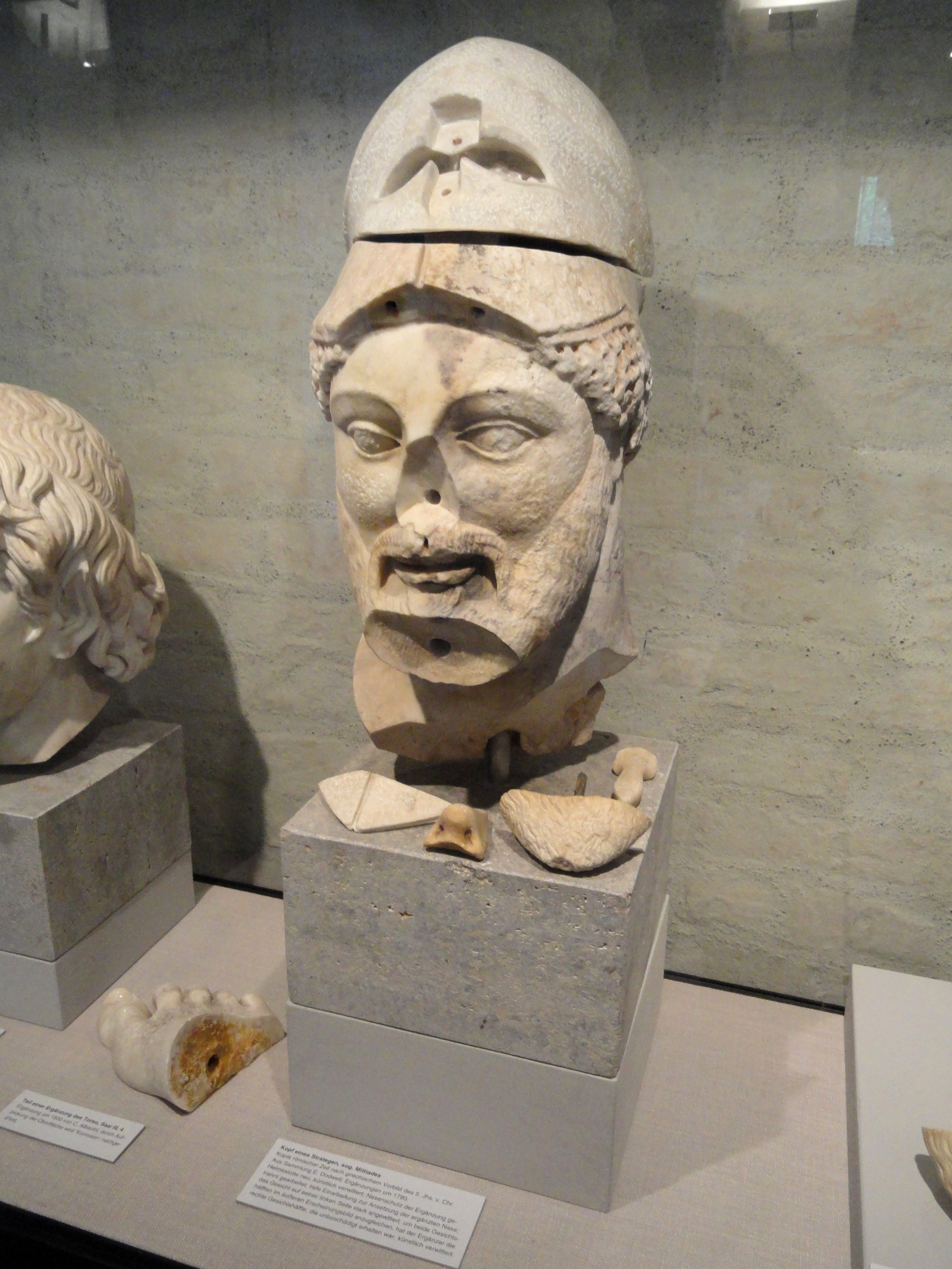 Head of strategos, so-called "head of Miltiades". Roman-time copy after Greek original from the 5th century BC.